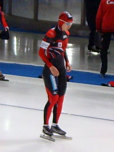 Sayuri Yoshii (JPN) before 1000 meters world cup speedskating race in Berlin, Germany.